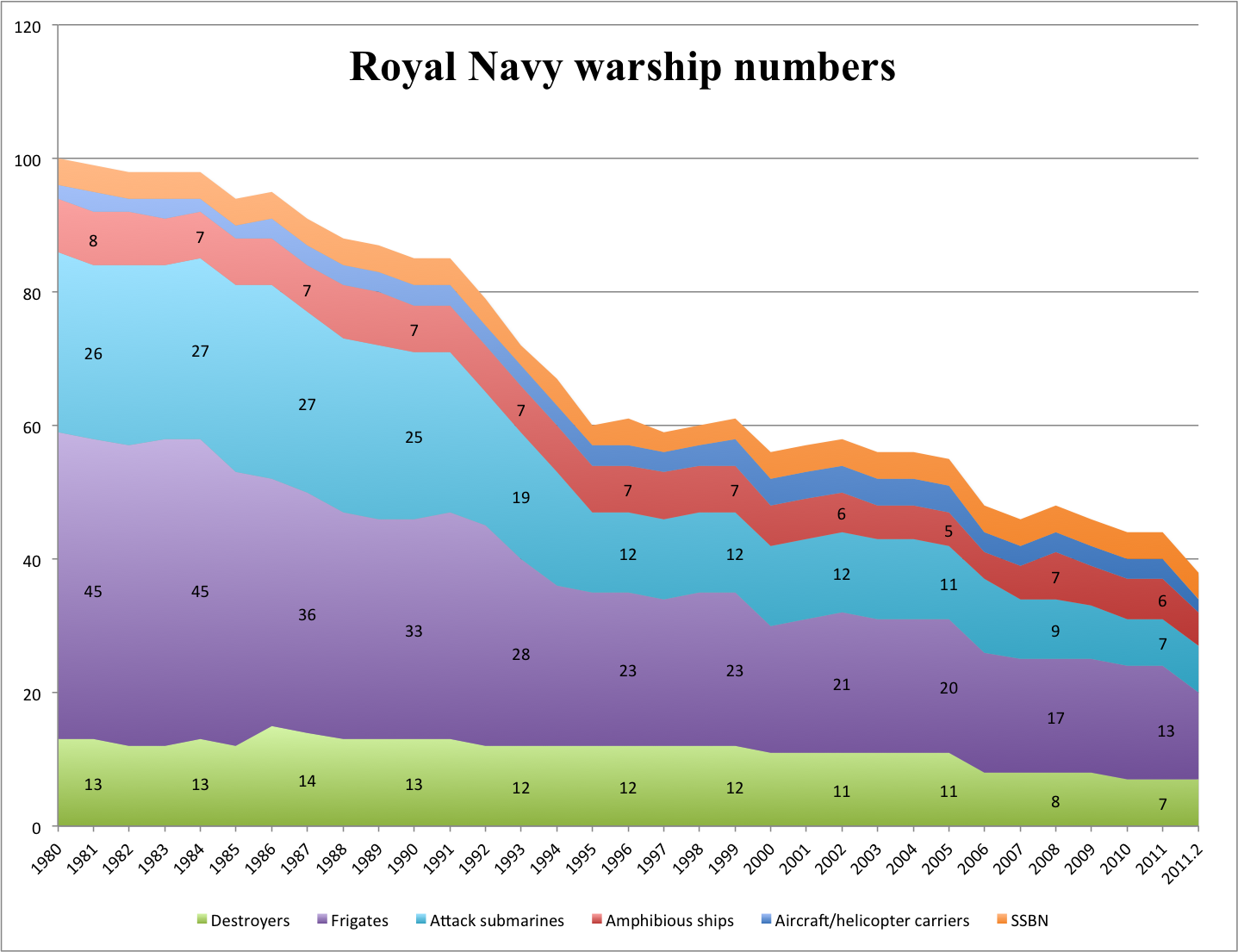 Development of the numbers of different types of Royal Navy warships (including RFA amphibious ships) since 1980. Only active and commissioned units are included; consequently training and reserve vessels are not. The numbers for each year are for January, 1. The graph shows the sharp decline in numbers of frigates, destroyers and submarines as a cause of the end of the Cold War (years 1991 to 1995), the Labour austerity measures (years 2005 to 2007) and finally the Conservative austerity measures (years 2010-).